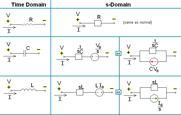 This is a picture of the s-Domain equivalent circuits for the 3 normal components: resistor, capacitor, and inductor with initial conditions (current/voltage).